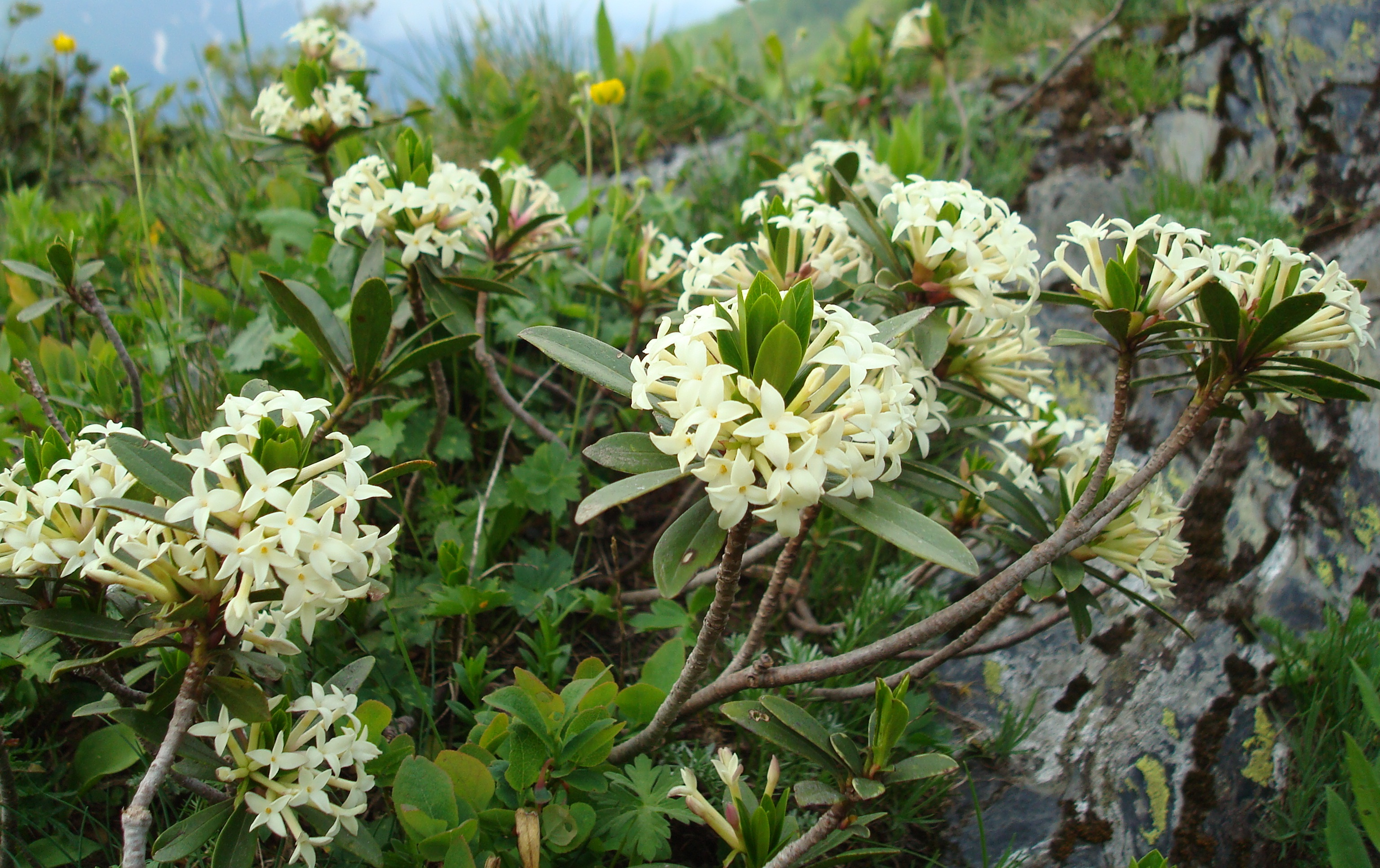 Daphne glomerata Lam under natural conditions in mountain part of Caucasus Biosphere Reserve This image is related to the protected area of Russia number 2300002